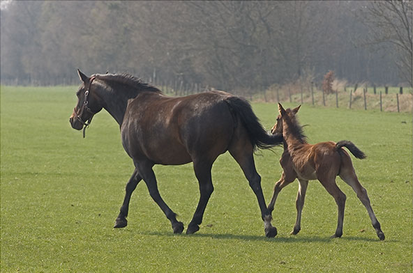 A filly following his mother.